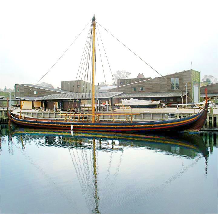 Viking ship "Havhingsten", Roskilde 2005